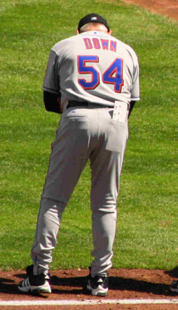 2006 PHOTOGRAPHS NEVER BEFORE SEEN 2007 . Washington Nationals' home opener versus the New York Mets . RFK Stadium, SE . WDC . Tuesday afternoon, 11 April 2006 . . Elvert Xavier Barnes Photography